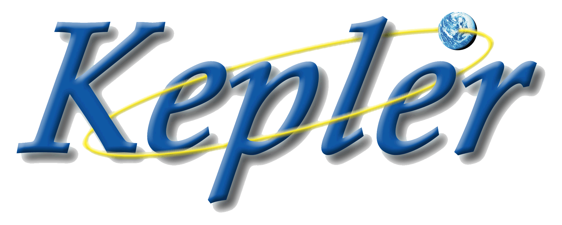 Kepler Mission Logo